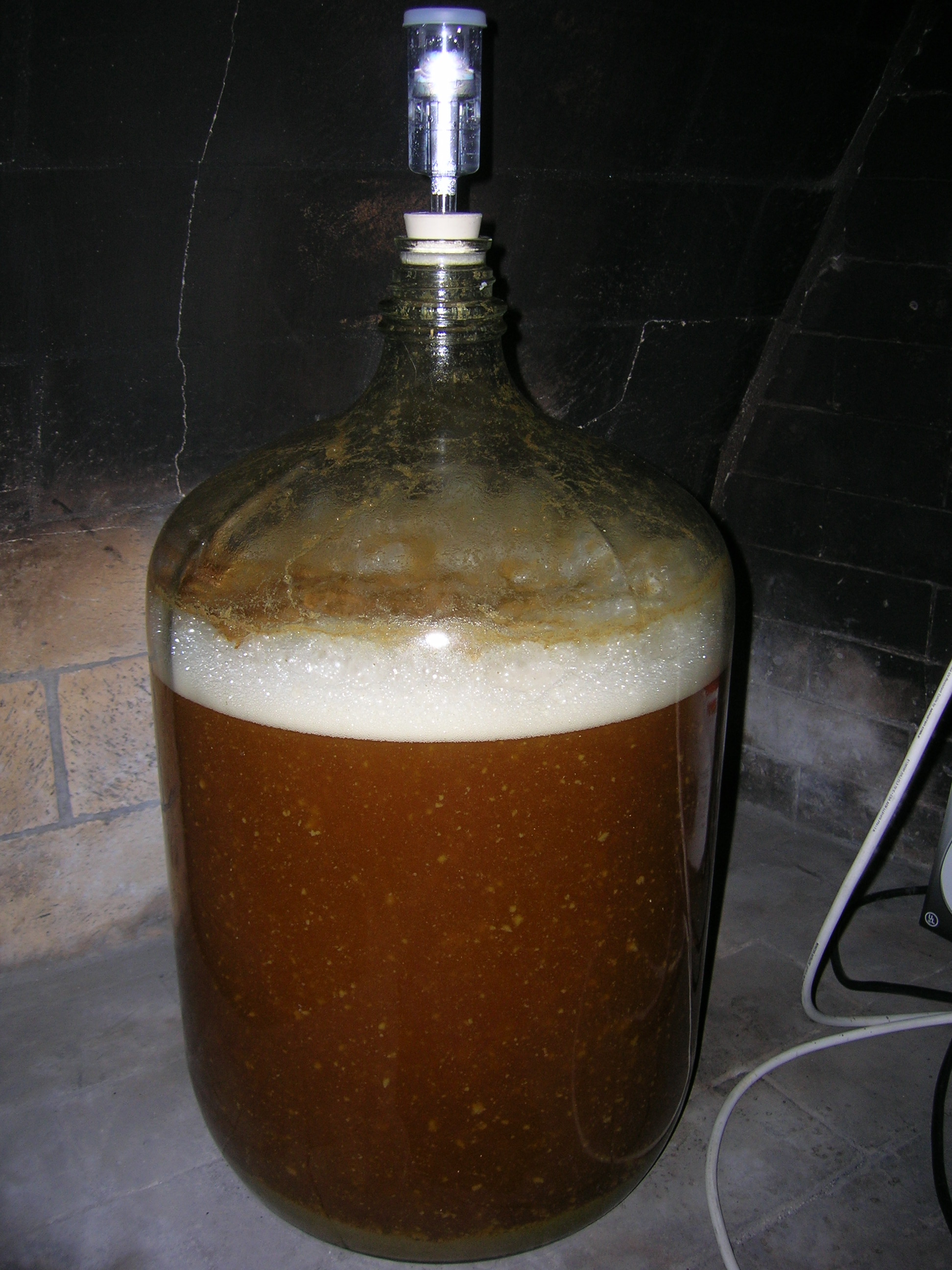 A 6.5-gallon (24.7 l) glass carboy acting as a fermentation vessel for beer. It is fitted with a fermentation lock. (Text copied from caption on: Carboy) I took this picture myself (a zoomed in and cropped version is at Image:Airlock2.jpg).